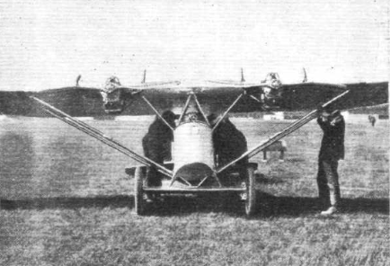 Head-on view of the Daimler L21 in 1925